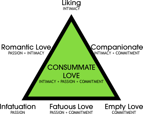 Image shows the 3 properties of love and how it creates the 7 different loves according to theory.